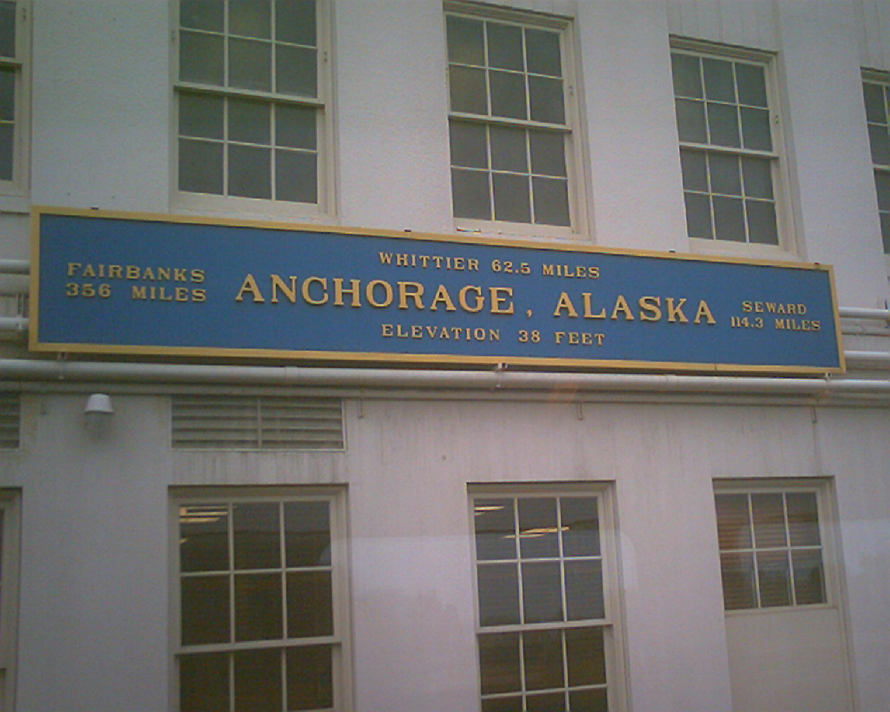 Sign near the train platform outside of the Alaska Railroad station in Anchorage. Lists distances via rail to other Alaskan communities.